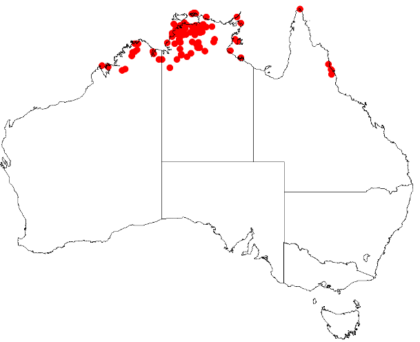 Decaisnina signata Occurrence data from AVH downloaded 24 February 2019 using